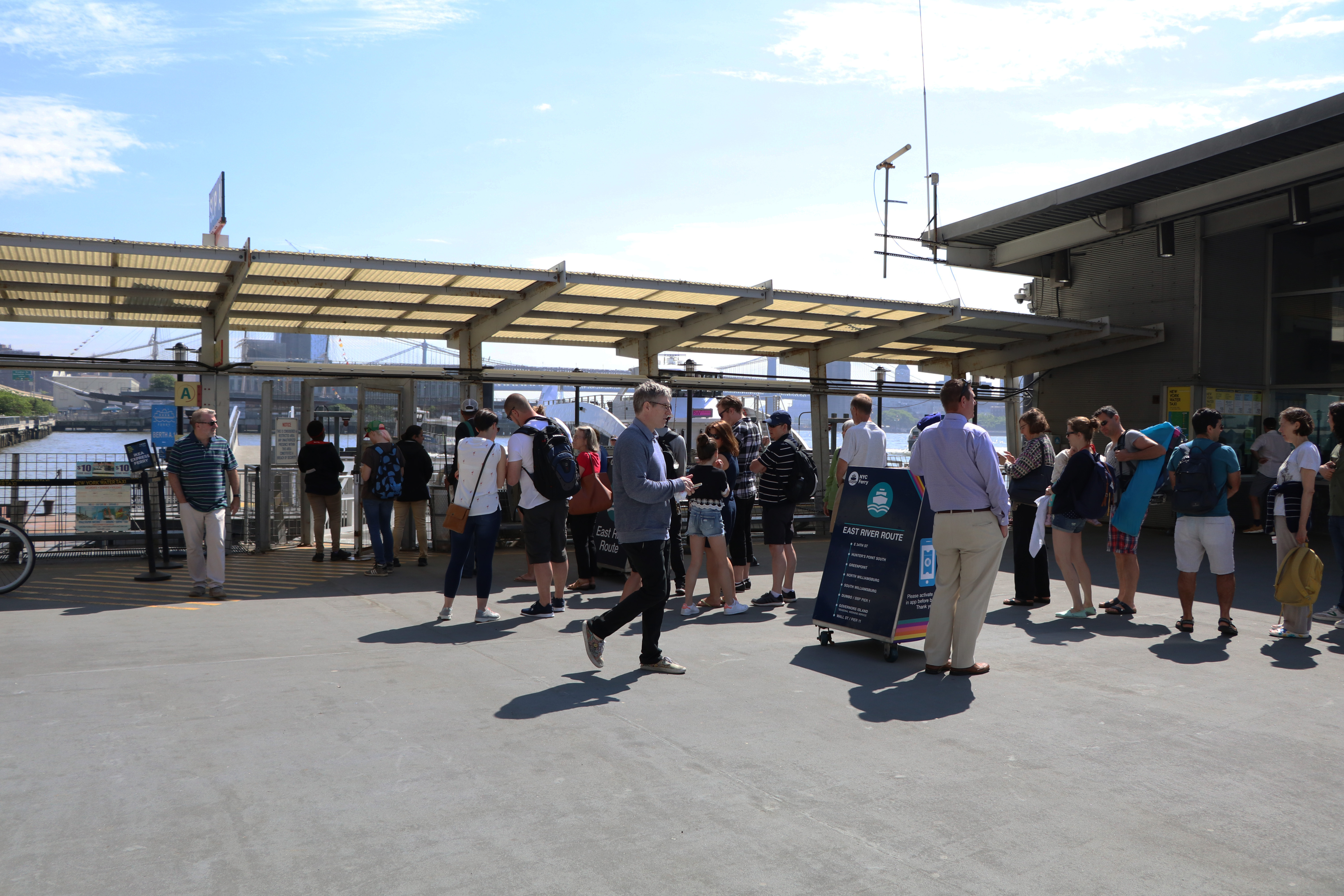 Line for East River Ferry at Pier 11/Wall St.